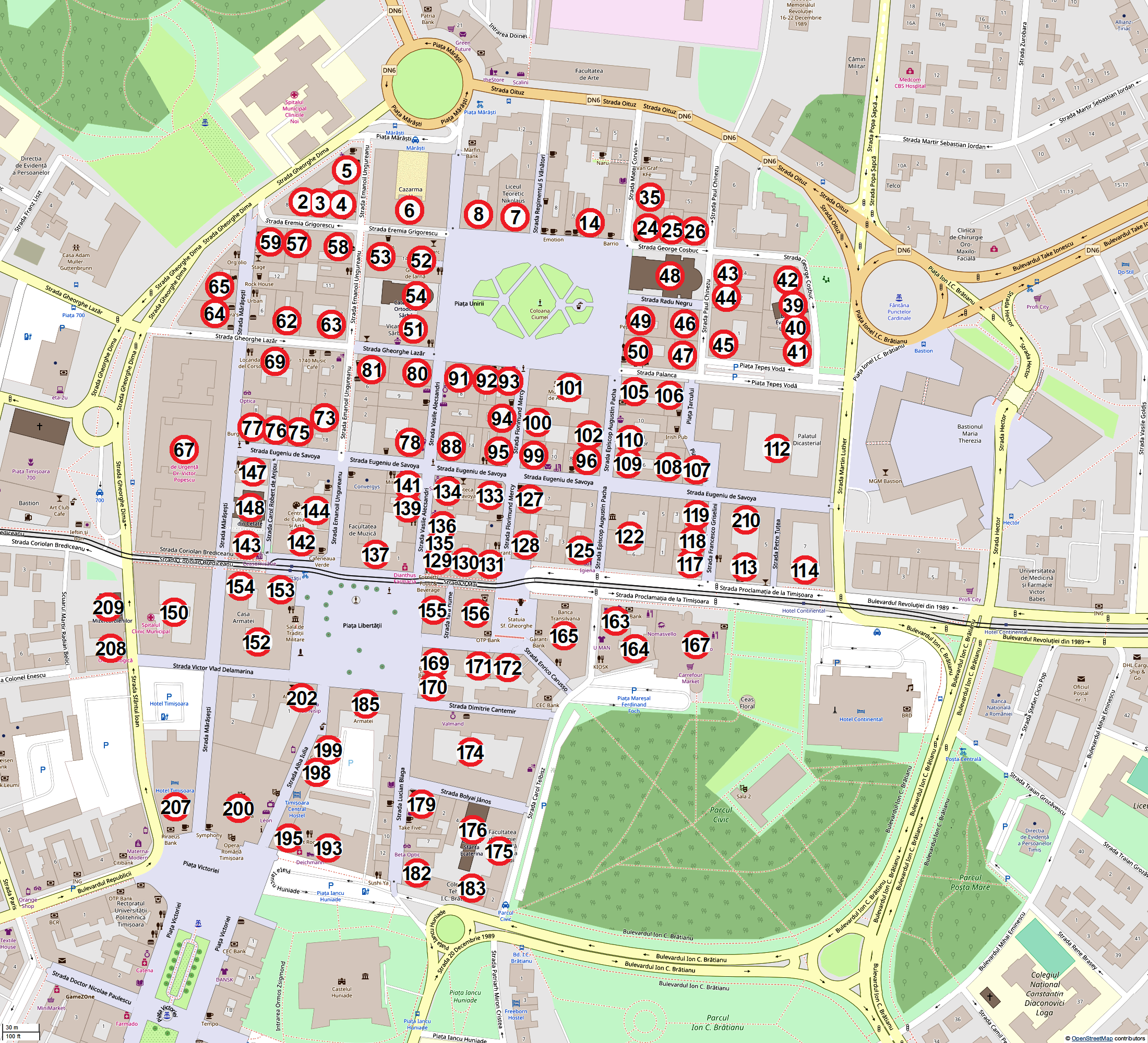 Map of objectives in the "Situl urban cartierul „Cetatea Timișoara”"